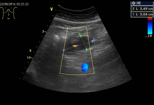 Ultrasound imaging of histologically confirmed Gastrointestinal stromal tumor (GIST) anterior to the pancreas. longitudinal section